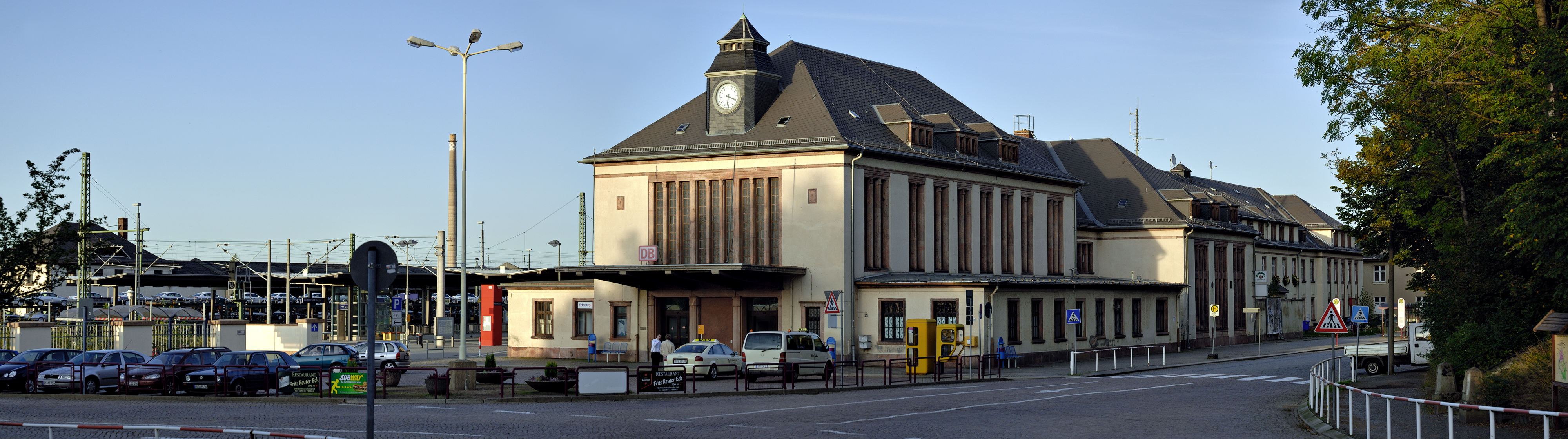 This image shows the train station in Glauchau (Germany). It has been stitched together using three images.